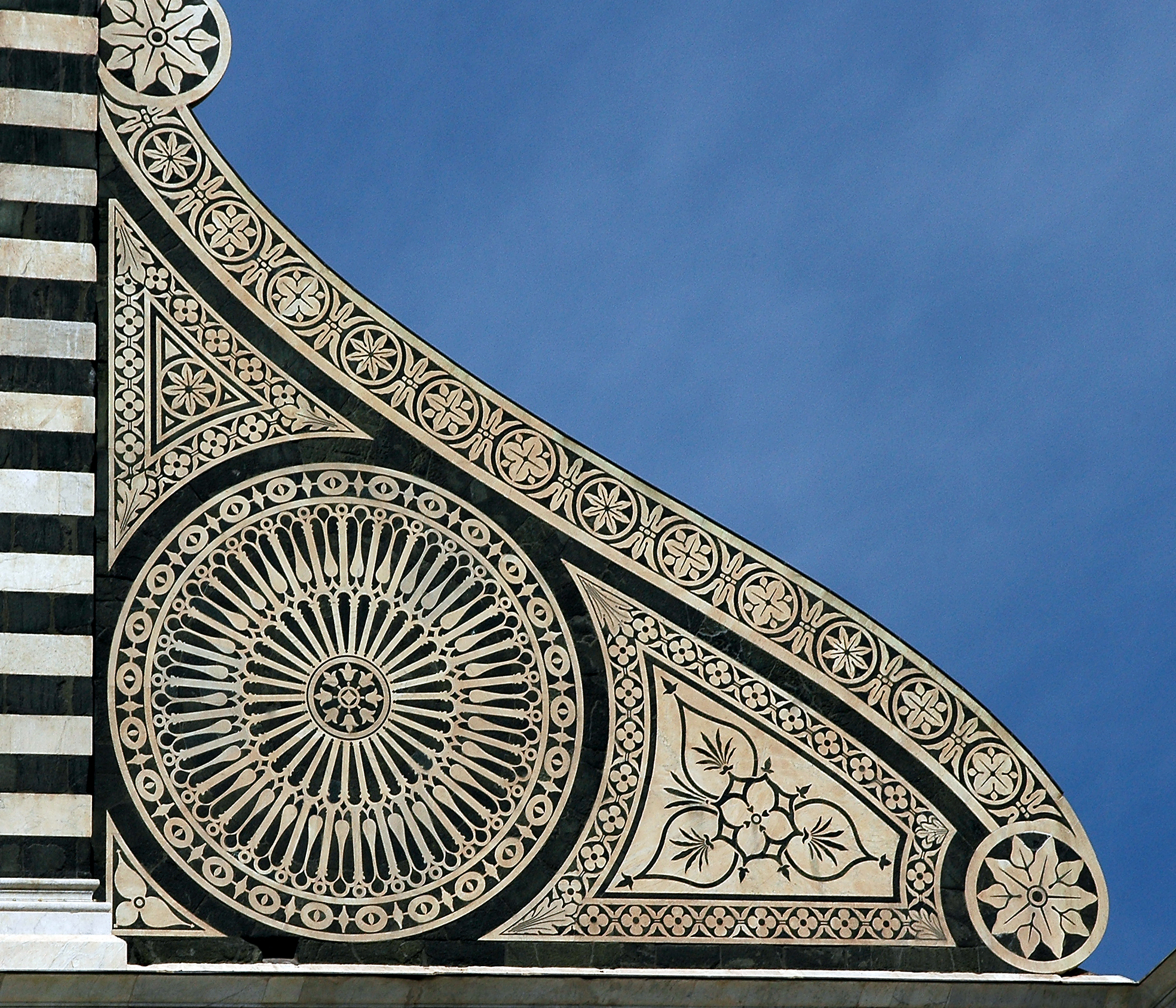 Detail of the facade of Santa Maria Novella (Florence)